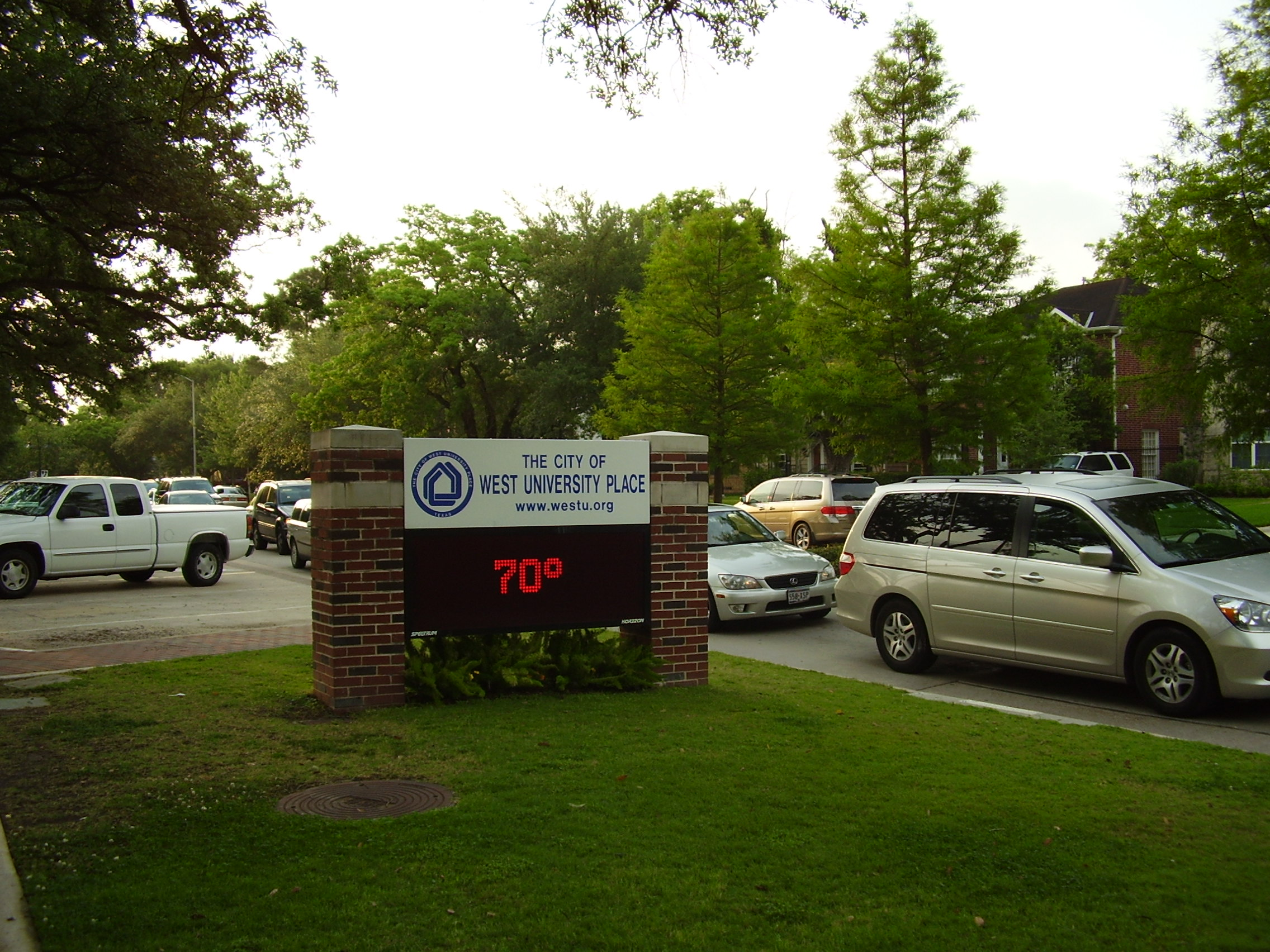 Electronic sign at West University Elementary School West University Place, Texas